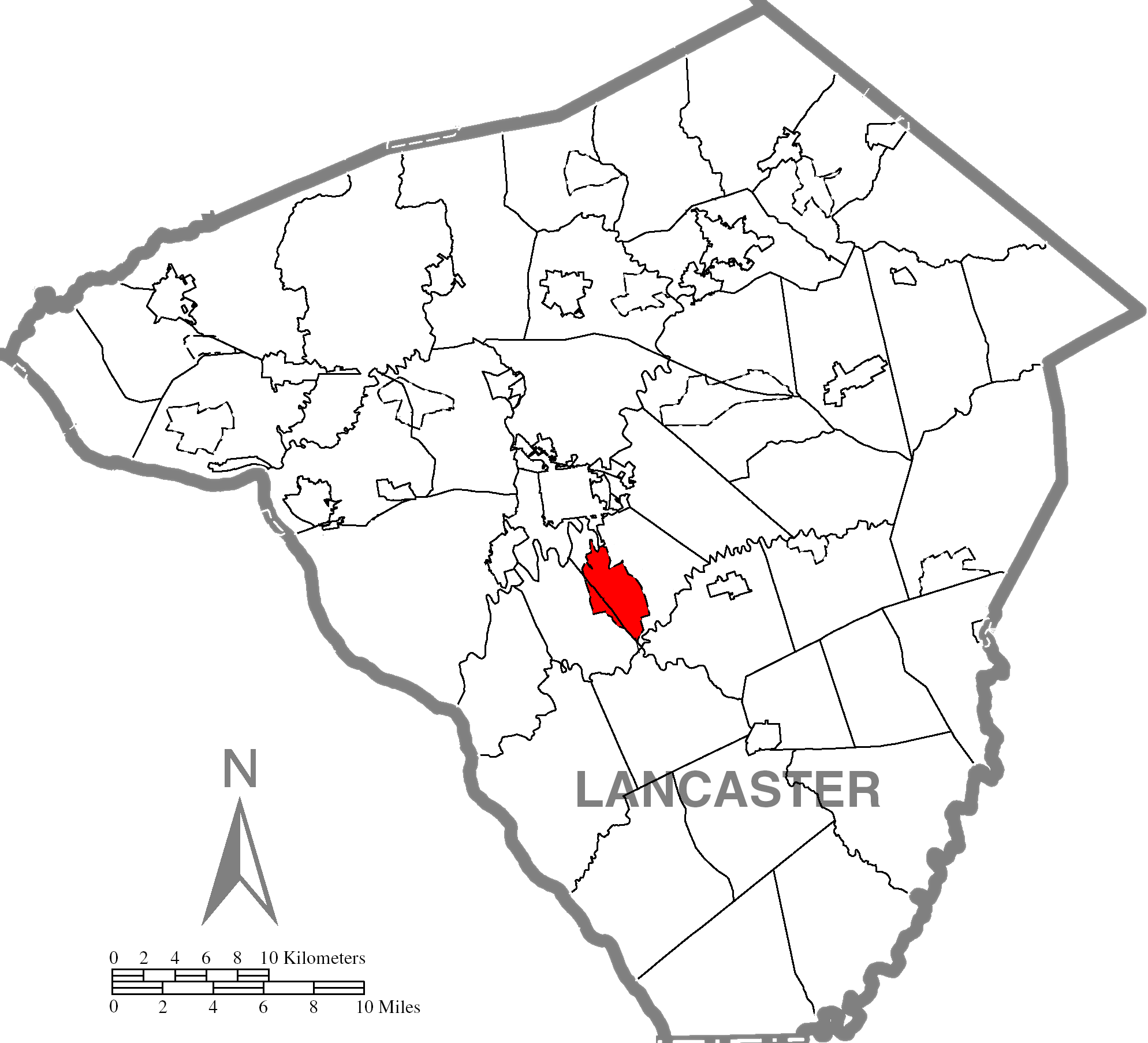 Highlighted Lancaster County map of Willow Street.